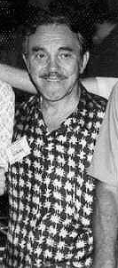 Photo of Jerry Iger at the 1972 New York Comic Convention.